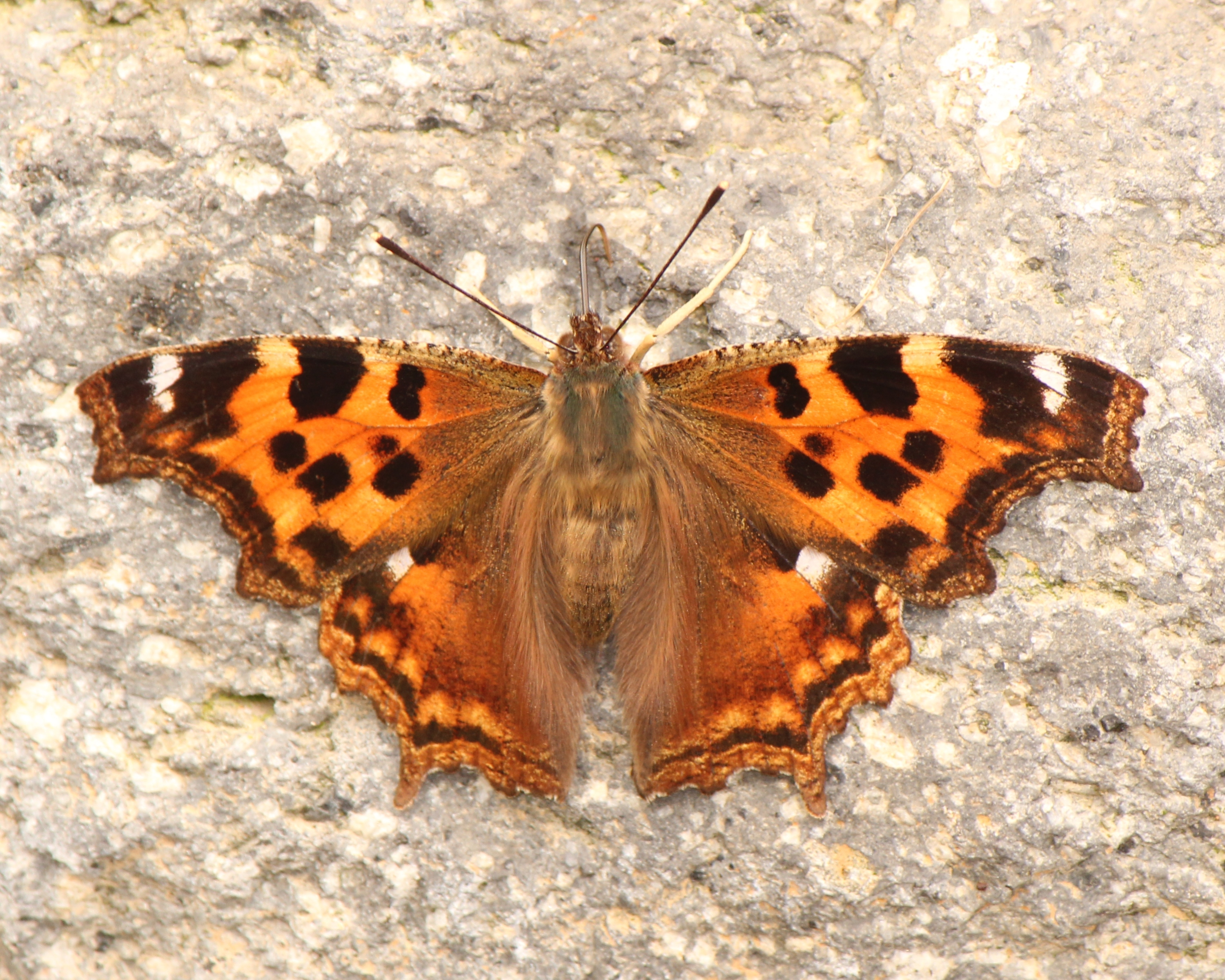 Nymphalis vaualbum, in Mount Haku, Ishikawa prefecture, Japan.